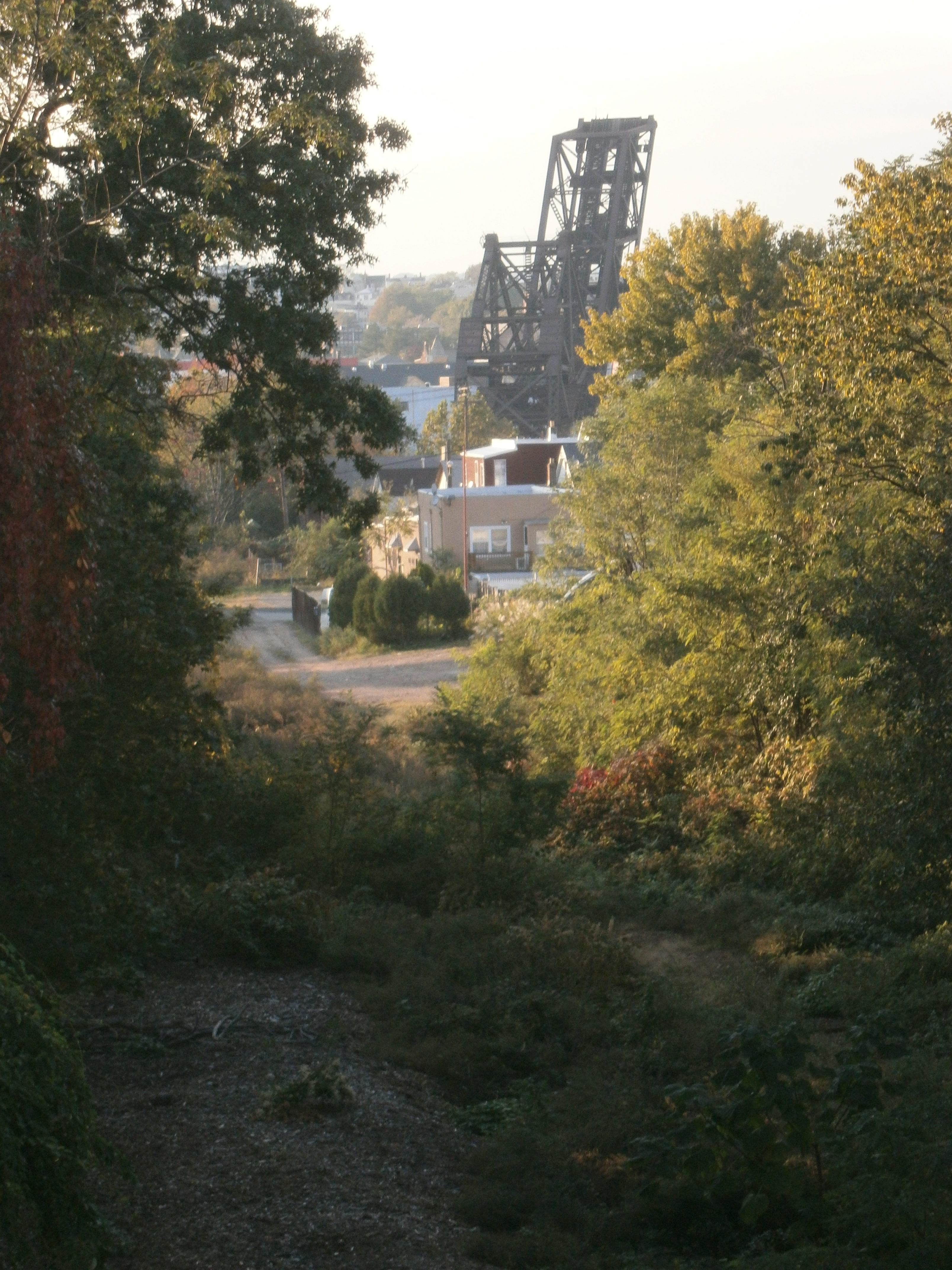 Erie Railroad (Newark Branch) ROW and NX Bridge over the Passaic as seen from east